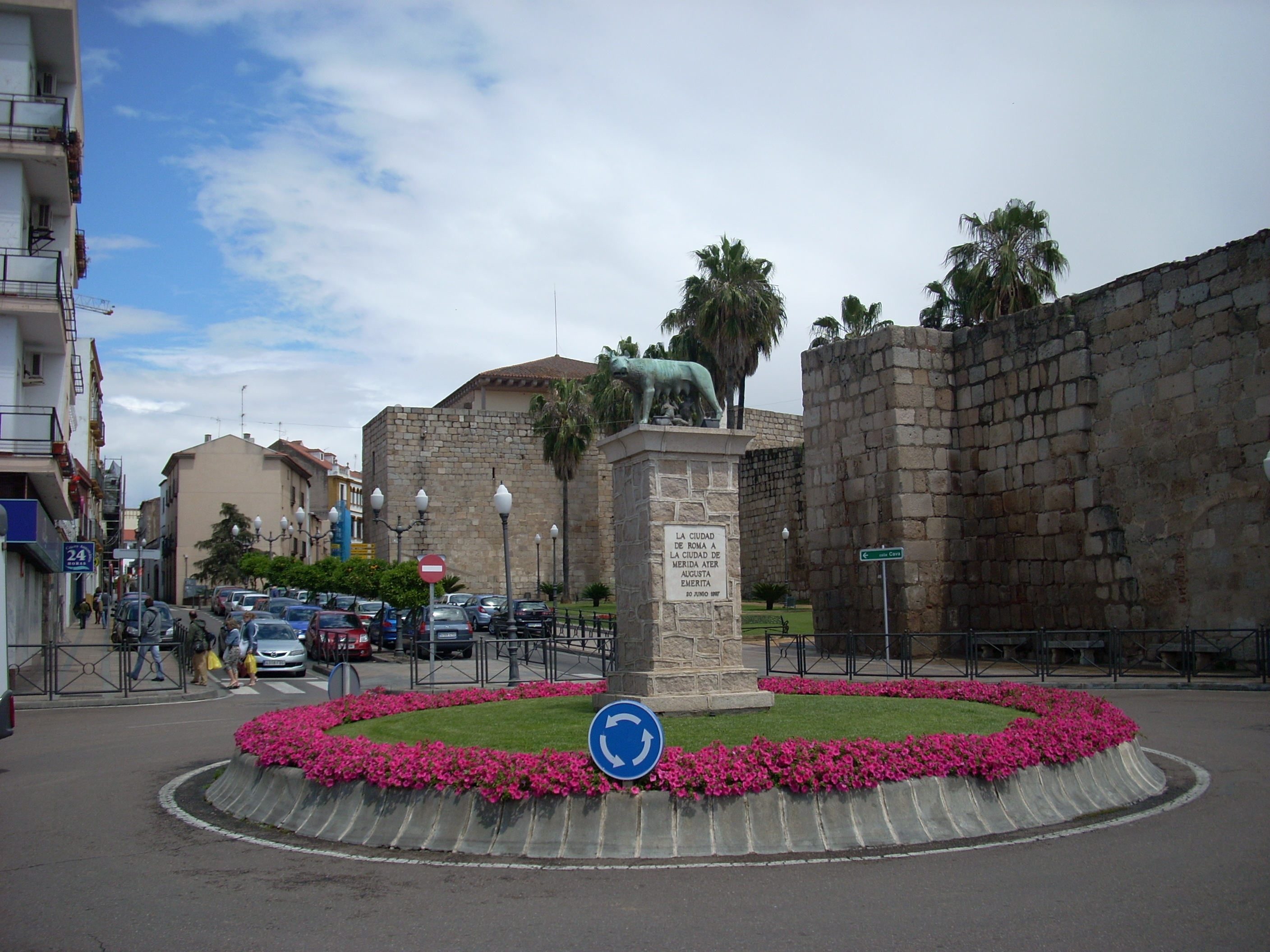 Merida, Spain. (Former Capital City of Lusitania - Roman Province)